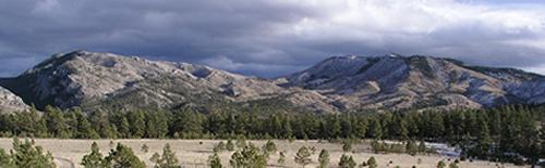 Mountain range in the Helena National Forest — in Lewis and Clark County, Montana.